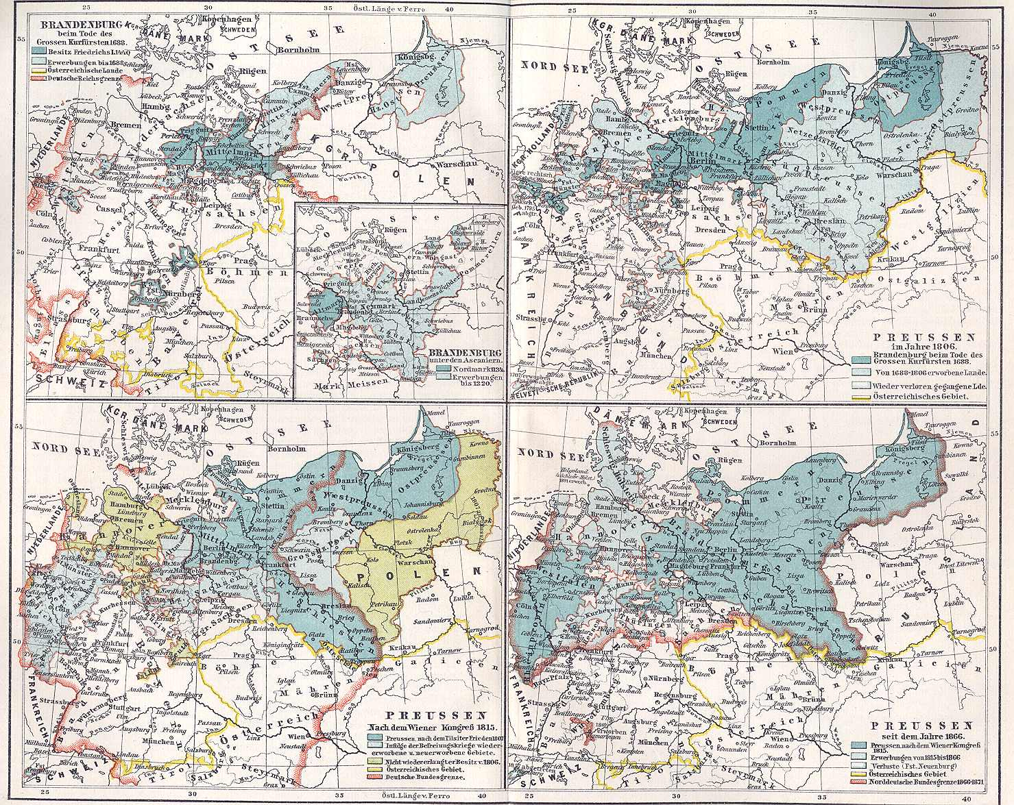 Prussian History Map, 1688, 1806, 1815, 1866